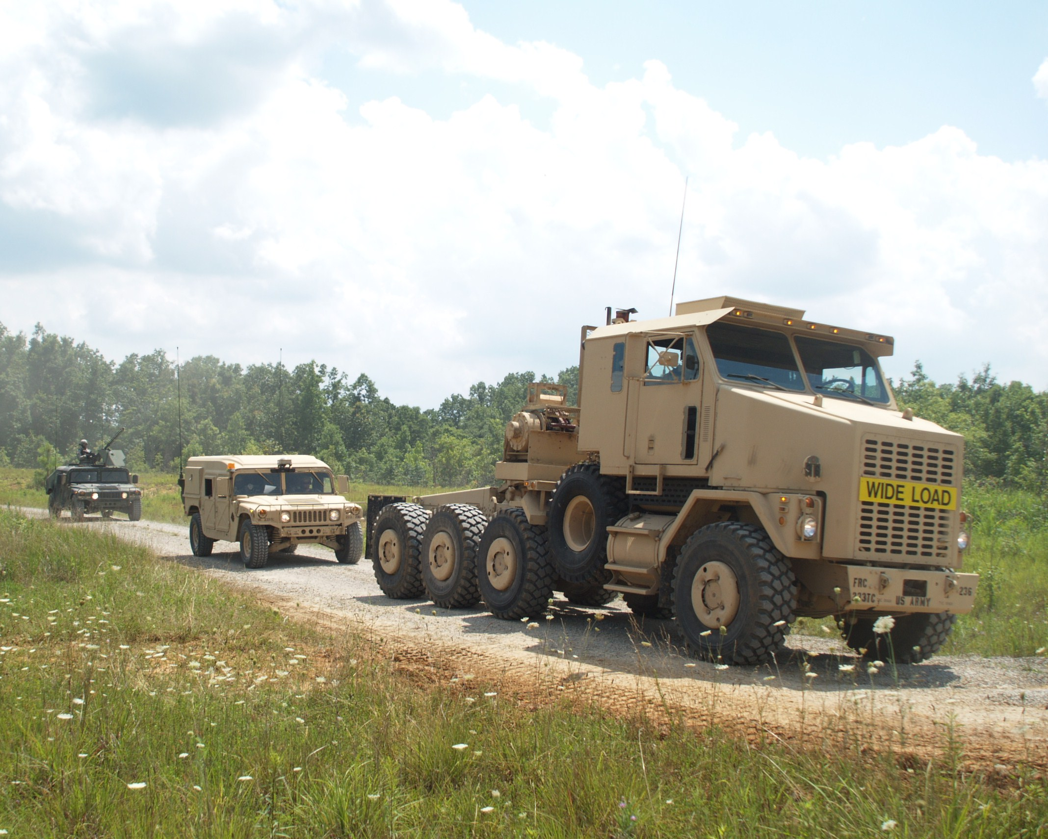 233rd Transportation Company begins their convoy live fire exercise during the company FTX on Fort Knox July 10. The Heavy Equipment Transport must carefully navigate its way through the narrow lanes of Steels Tank Range. (U.S. Army photo by 2nd Lt. Sean Chang).